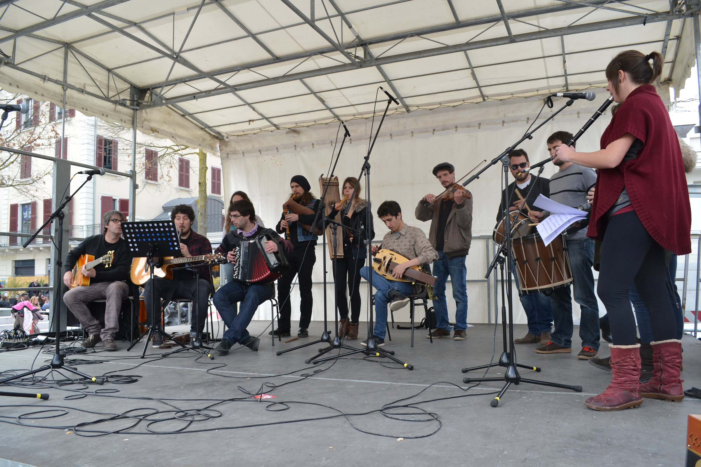 Students from Pau Conservatoire and Conservatorio superior de Navarra during "Bal en vila" on 2016 march, 29th, which gathered in Pau around ten traditional music school from Bearn and neighbourhood.